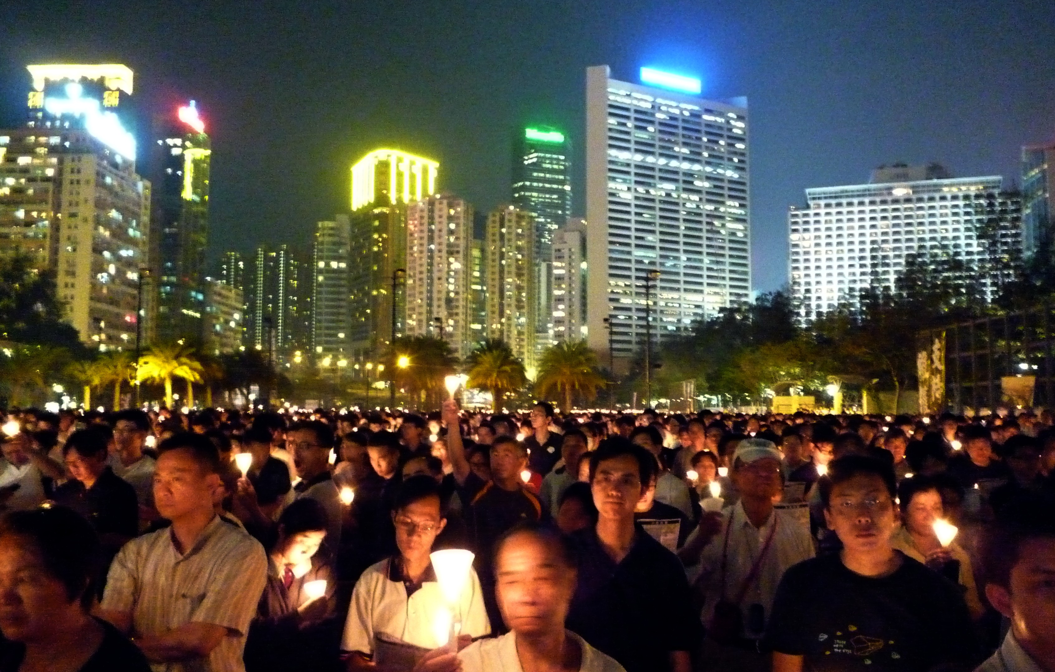 Candle-light vigil at Victoria Park, Hong Kong.